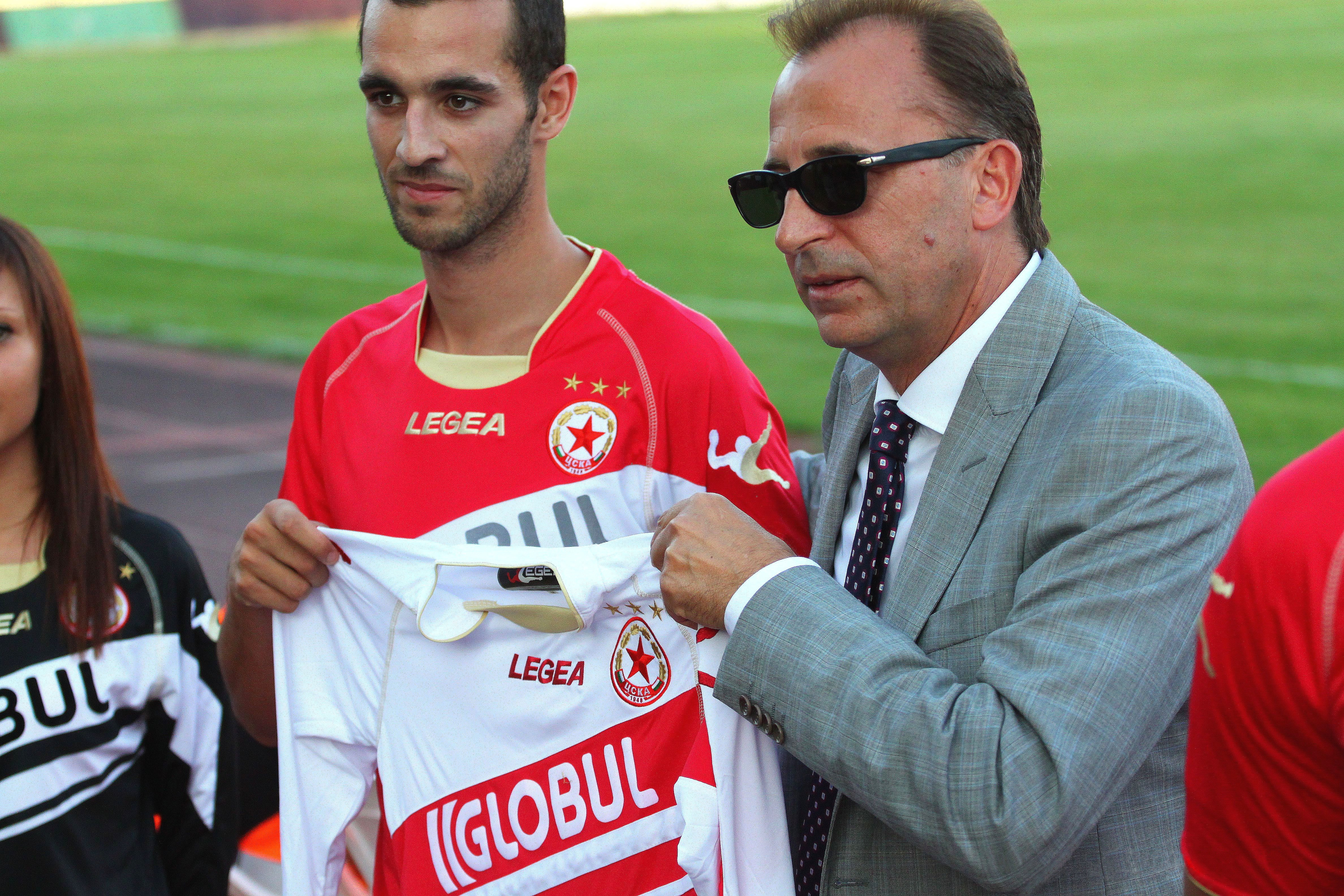 Director of CSKA Sofia - Ventsislav Zhivkov presents new player from Portugal - Tengarinya, Sofia, July 14, 2012